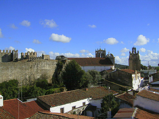 Serpa castle walls, Alentejo, Portugal